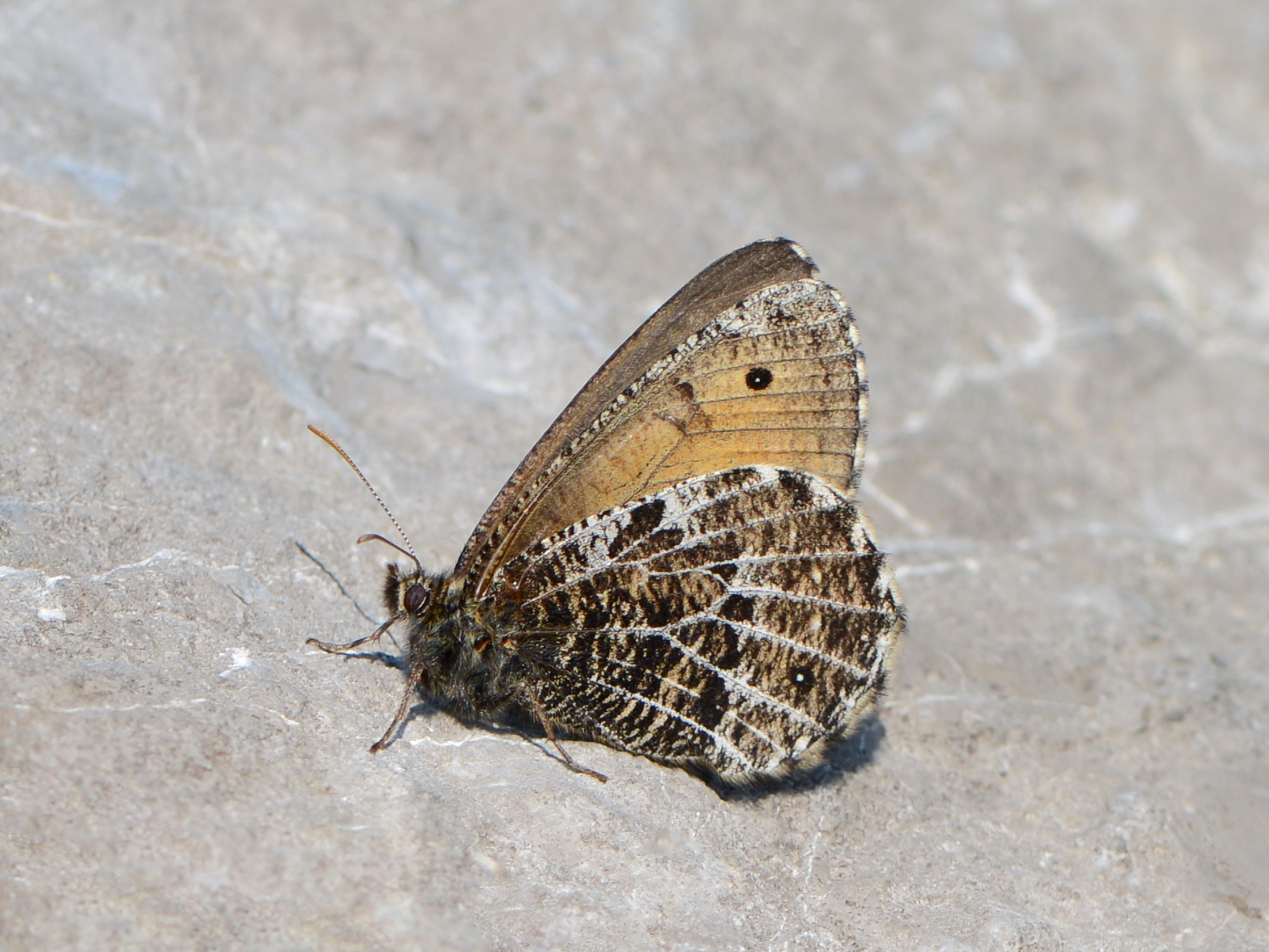 The Alpine Grayling (Oeneis glacialis) is a butterfly of the Nymphalidae family. It is found in the Alps on heights of 1400 to 2900 meters above sealevel.